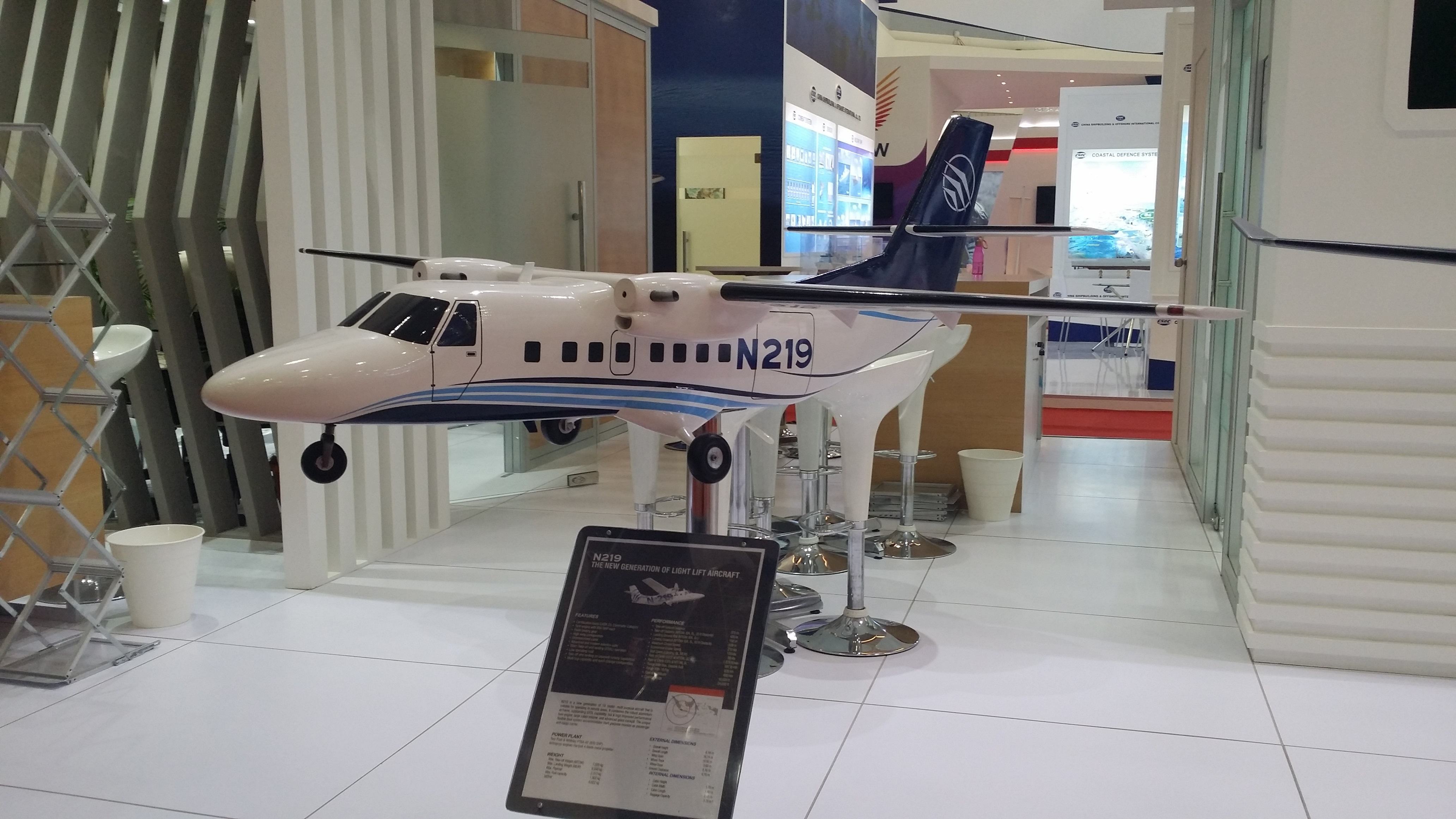 Model of Indonesian Aerospace N-219